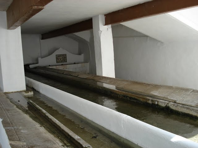 Lavadero público en Sot de Chera (Valencia, España)